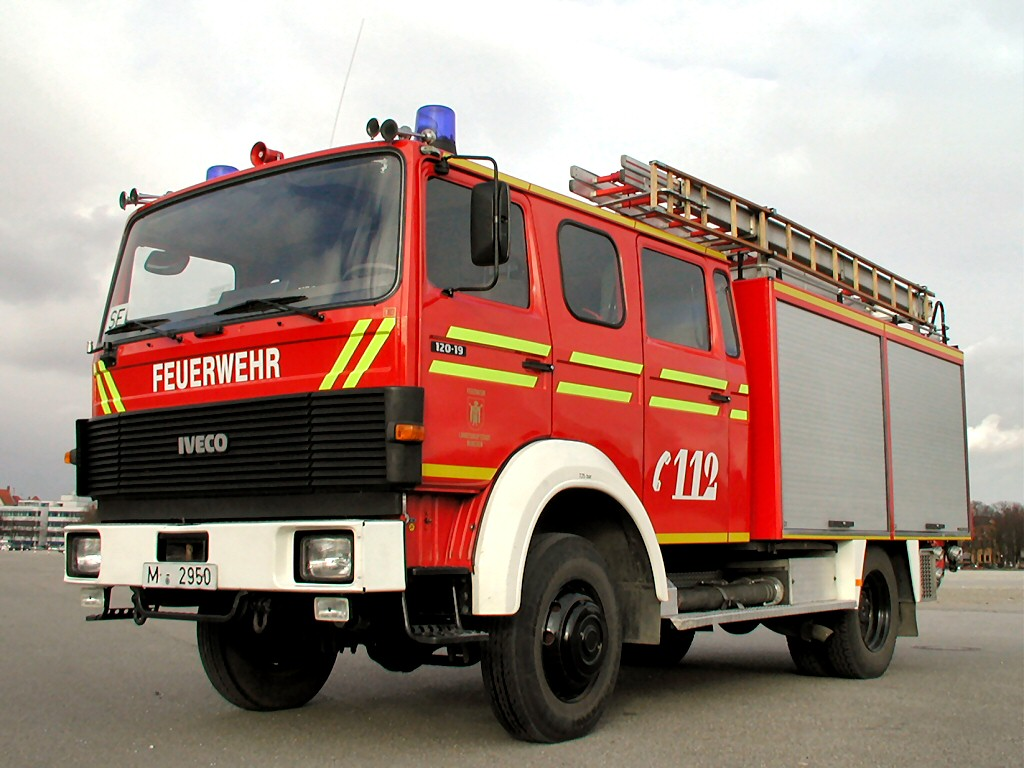 LF 16 of the Munich Volunteer Fire Brigade - Sendling Department at Theresienwiese in Munich, 2004